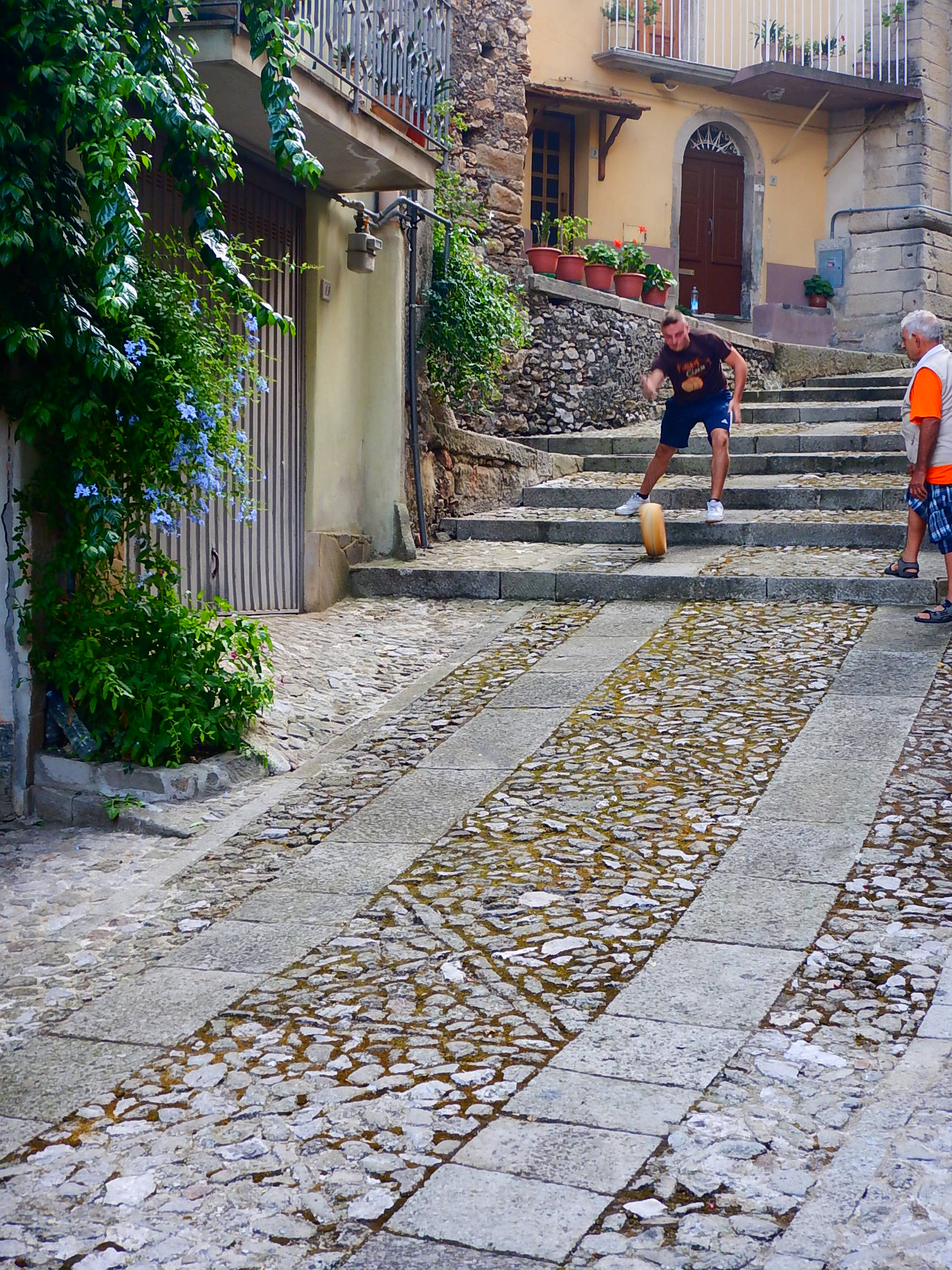 the tradional tournament of the Maiorchino cheese in Novara di Sicilia.